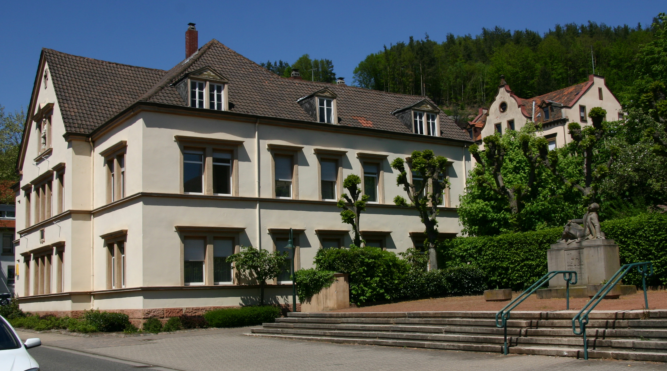 The "Pfarrer Dr. Lederer-Haus" is a cultural heritage monument in Rodalben, Schulstrasse 9, Germany.